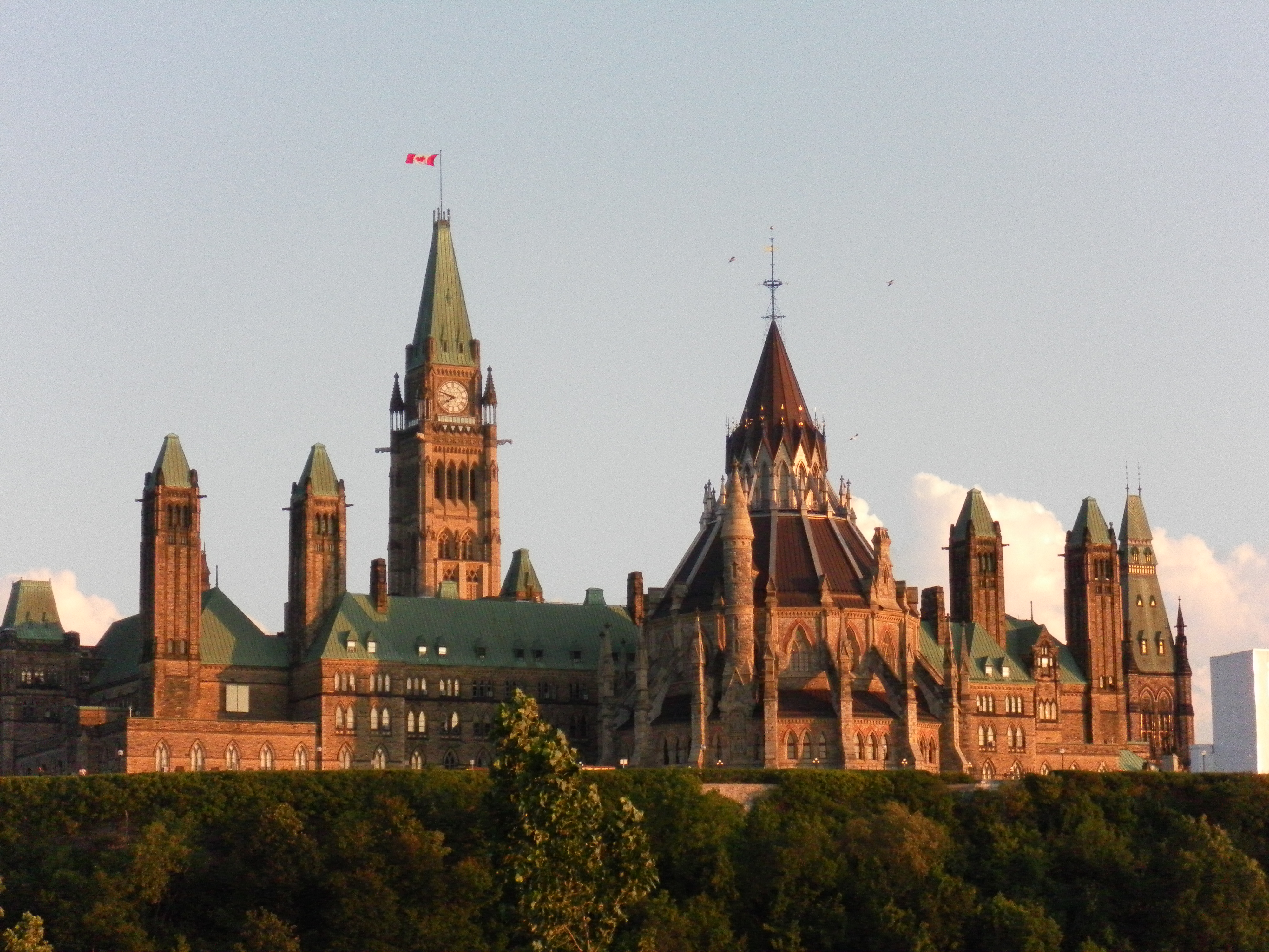 Dawn is coming at Parliament Hill in Ottawa.